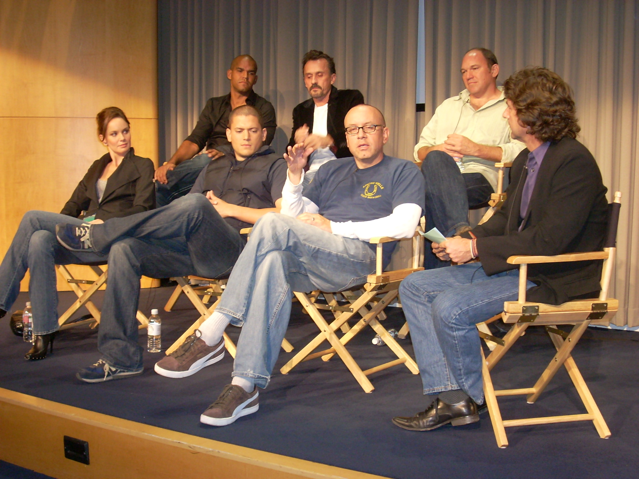 Cast Members of TV series Prison Break: Amaury Nolasco, Robert Knepper, Wade Williams, Sarah Wayne Callies, Wentworth Miller with executive producer Matt Olmstead at Paley Center for Media, Beverly Hills, California